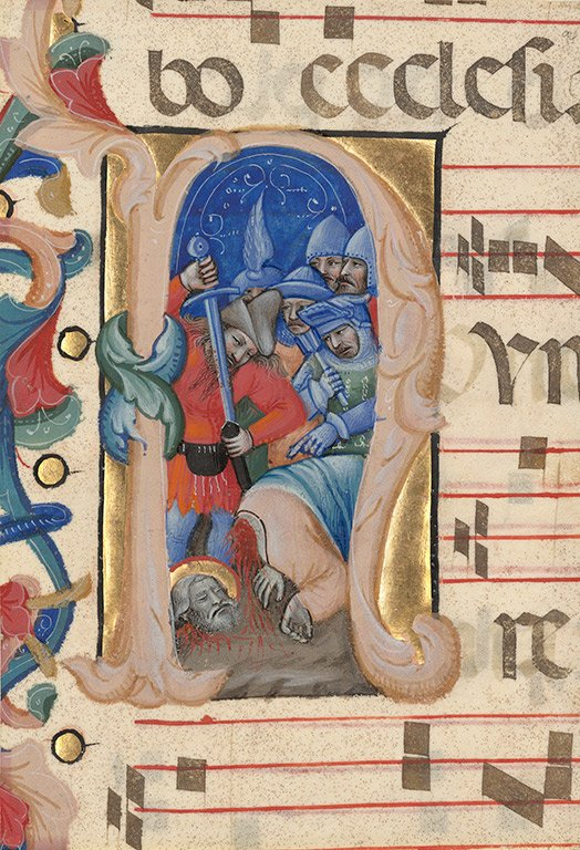 Leaf from the Gradual of the Carthusian Monastery Santo Spirito near Lucca by Niccolò di Giacomo da Bologna, about 1392-1402, tempera and gold leaf, 35.6 × 30.5 cm (14 × 12 in.), Getty Center